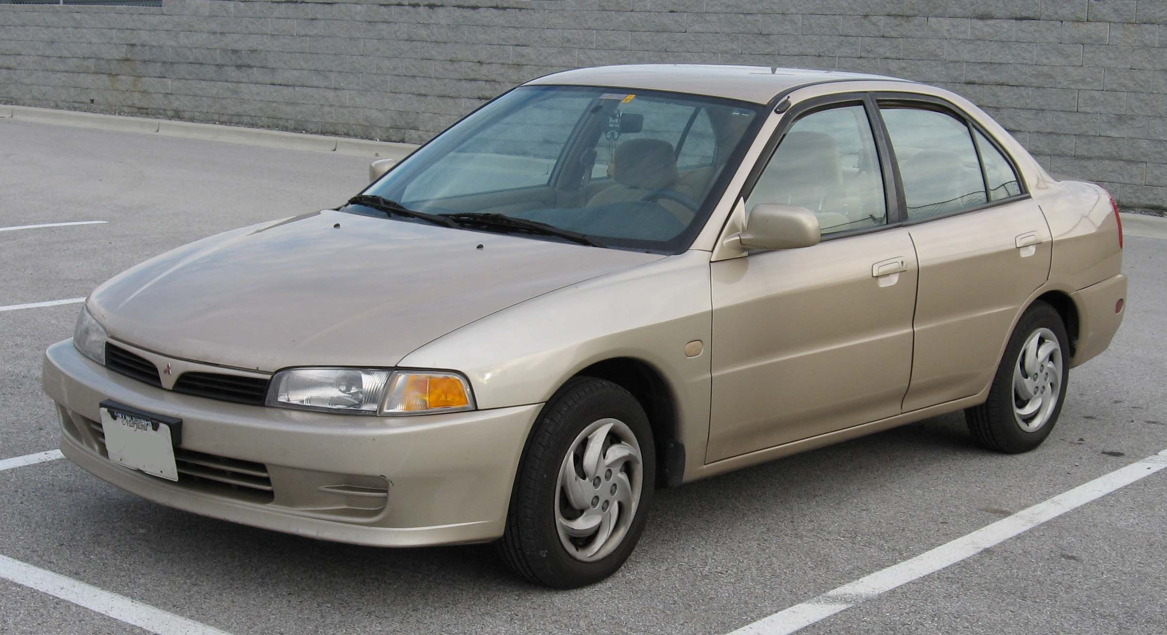 1997-2002 Mitsubishi Mirage photographed in USA.